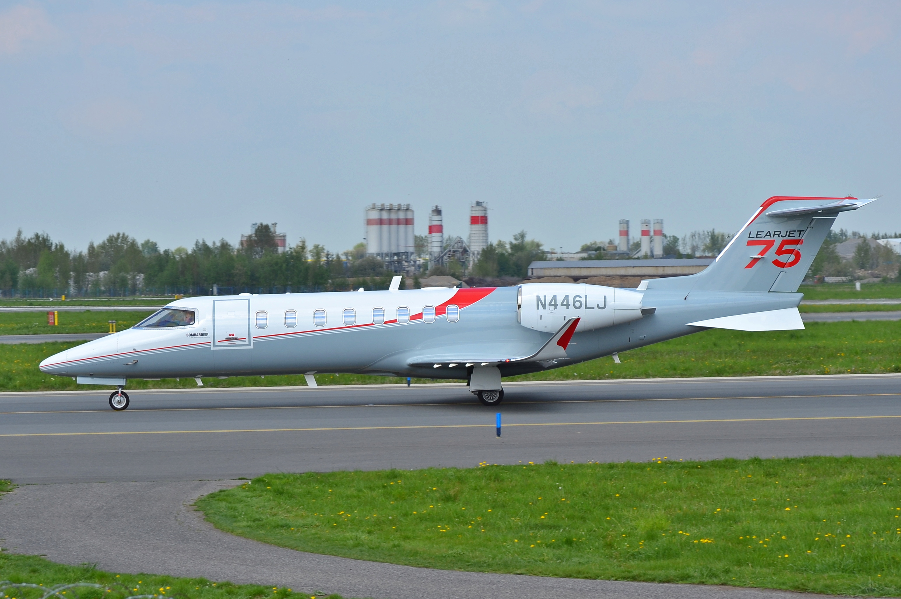 Learjet 75 (N446LJ) at Václav Havel Airport Prague, Czech Republic.